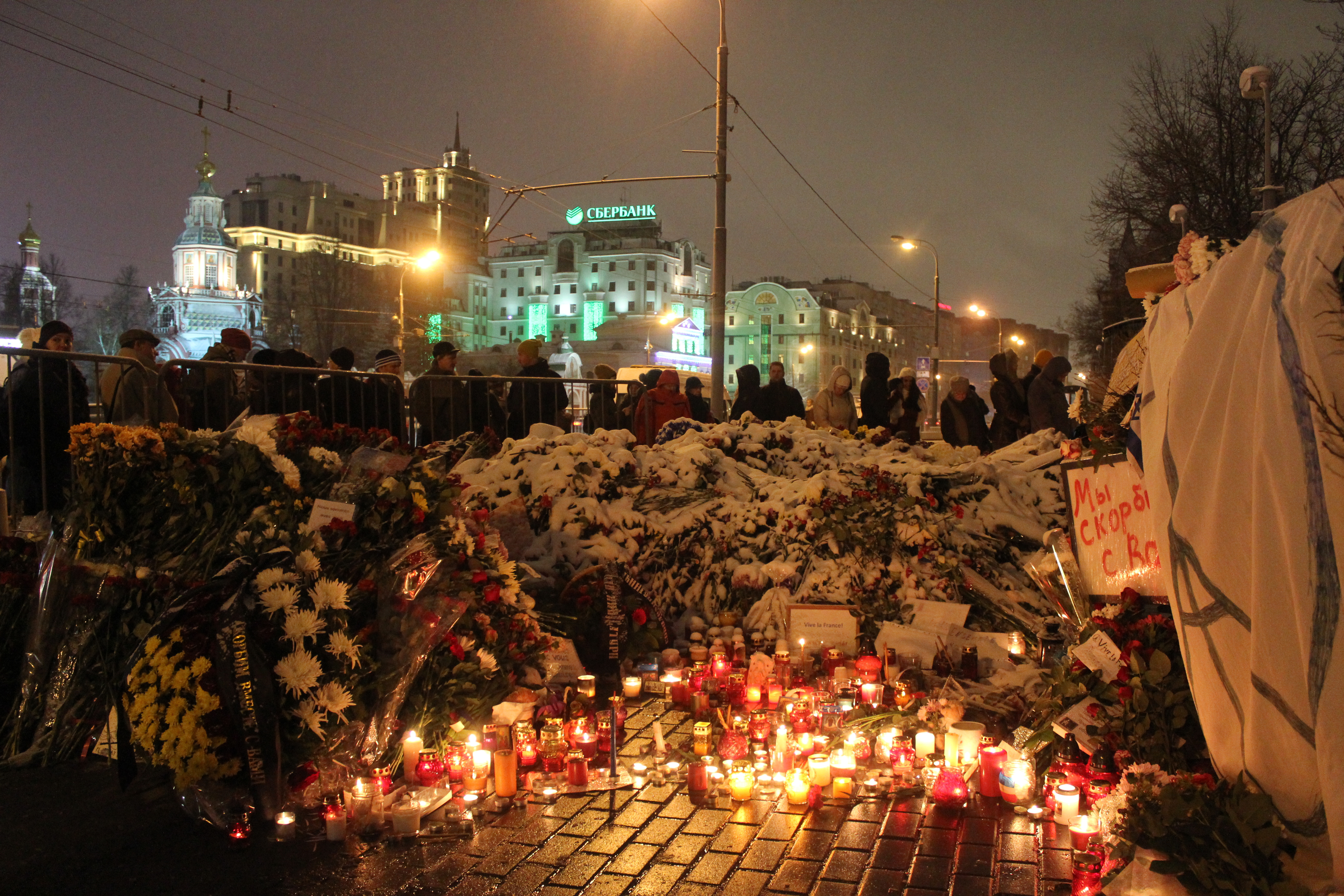 Flowers and candles. People standing in a line to write condolences in front of French embassy in Moscow